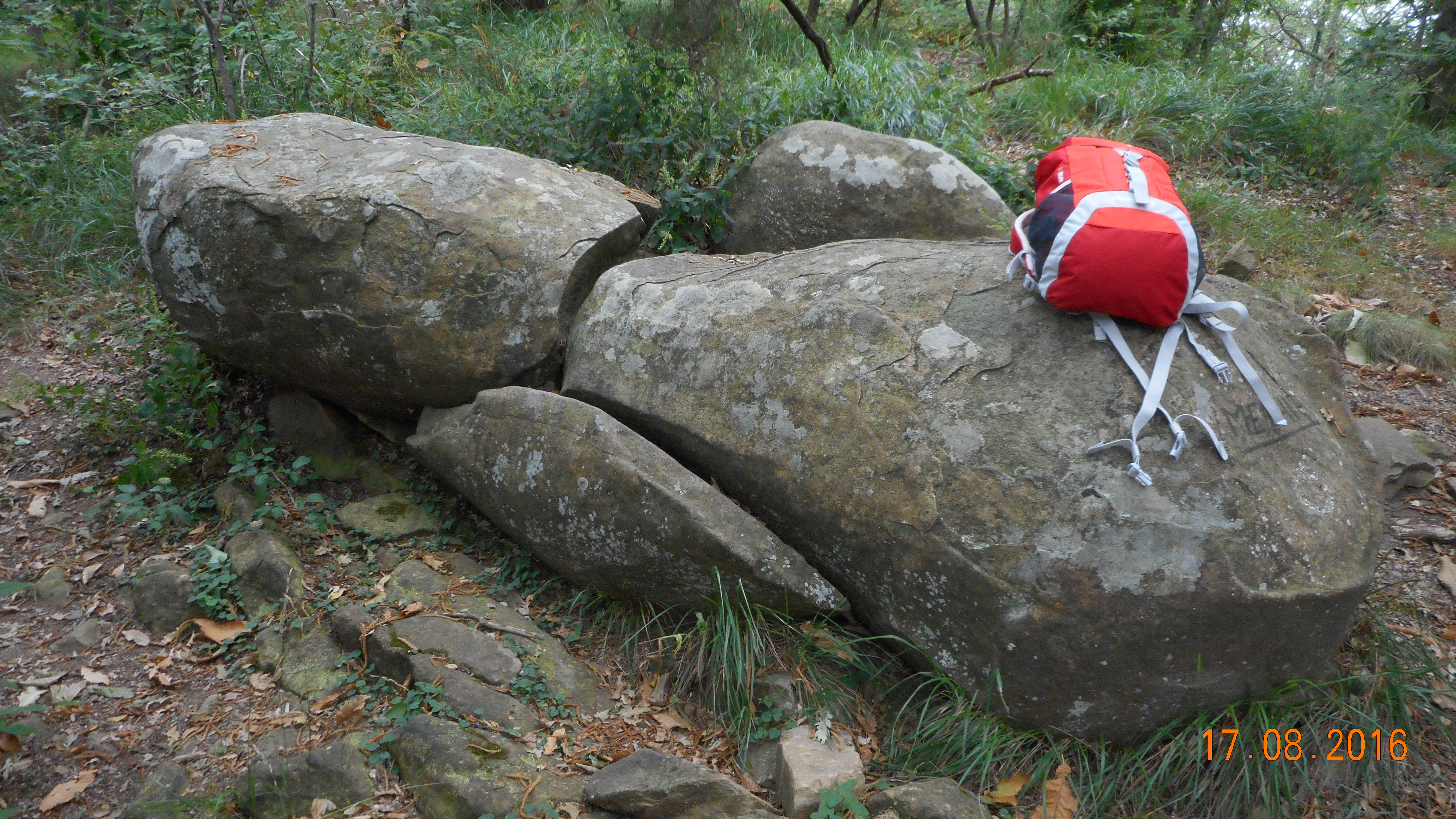 AV5T Menhir nei pressi del Sasso di Marzia